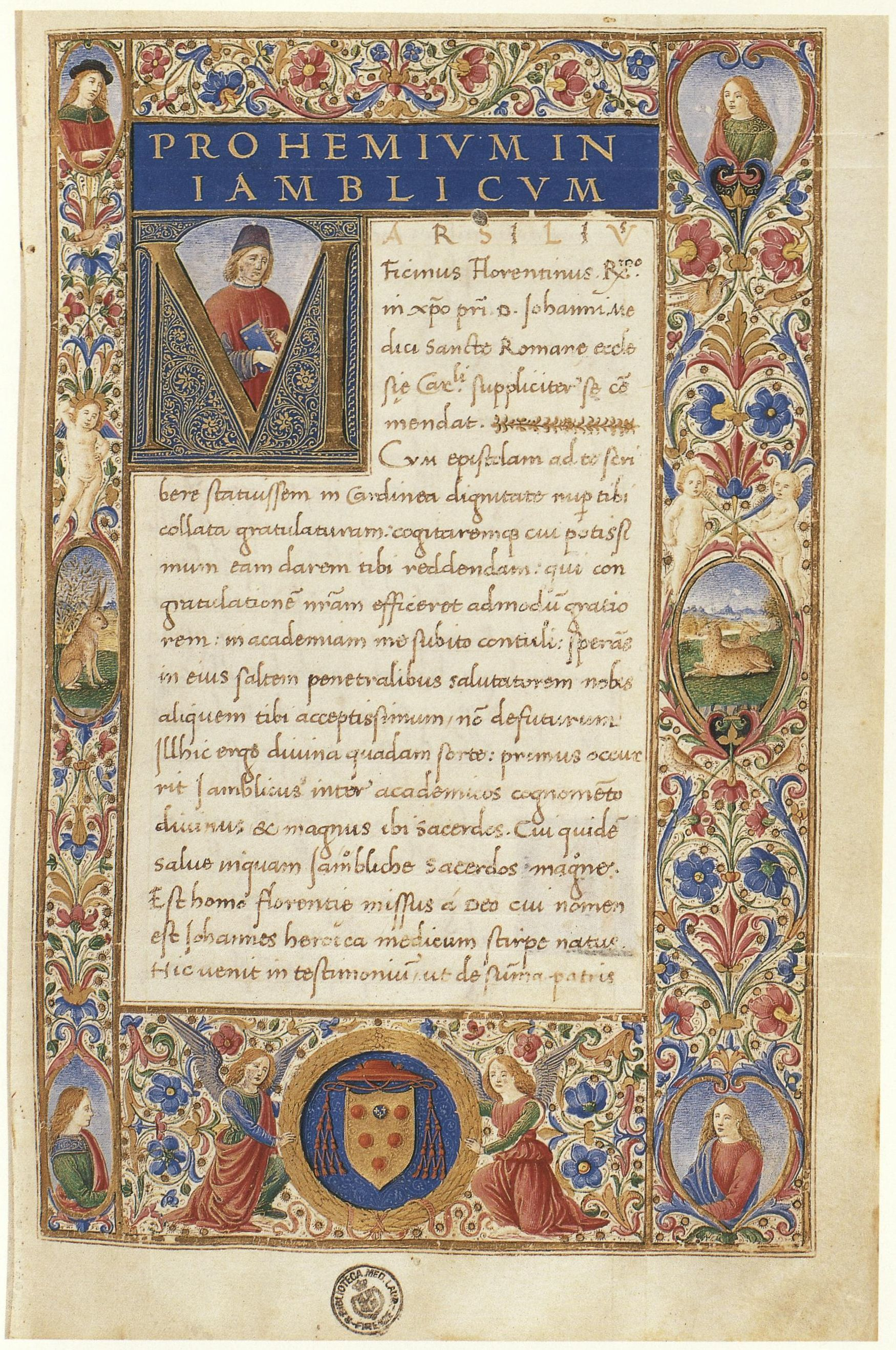 Marsilio Ficino’s introduction to his Latin translation of Iamblichus’ De mysteriis Aegyptiorum in a manuscript dedicated to Cardinal Giovanni de’ Medici, who became Pope Leo X. Manuscript Florence, Biblioteca Medicea Laurenziana, Strozzi 97, fol. 1r.